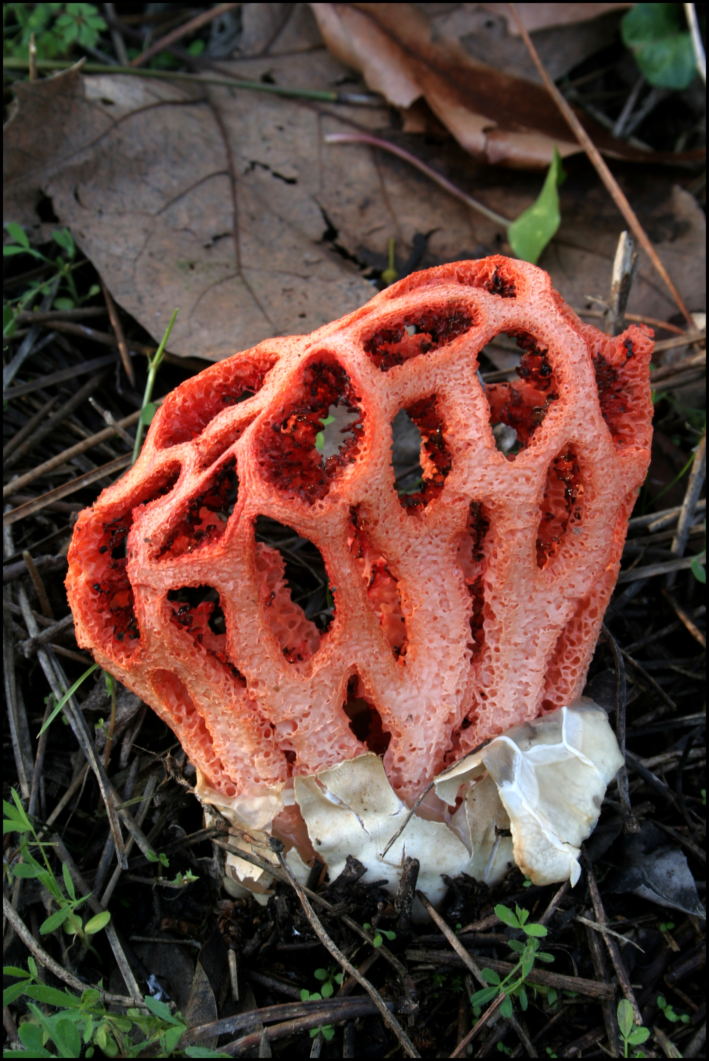 The lattice stinkhorn fungus, Clathrus crispus. Photographed in Casal de Ermio, Coimbra, Portugal. Canon EOS 350D, Canon EFS 18-55mm (52mm), f/13 1/8second ISO 100. Tripod and timer in late afternoon sunlight. Levels brought in slightly and hairline black border added using Gimp/Linux.